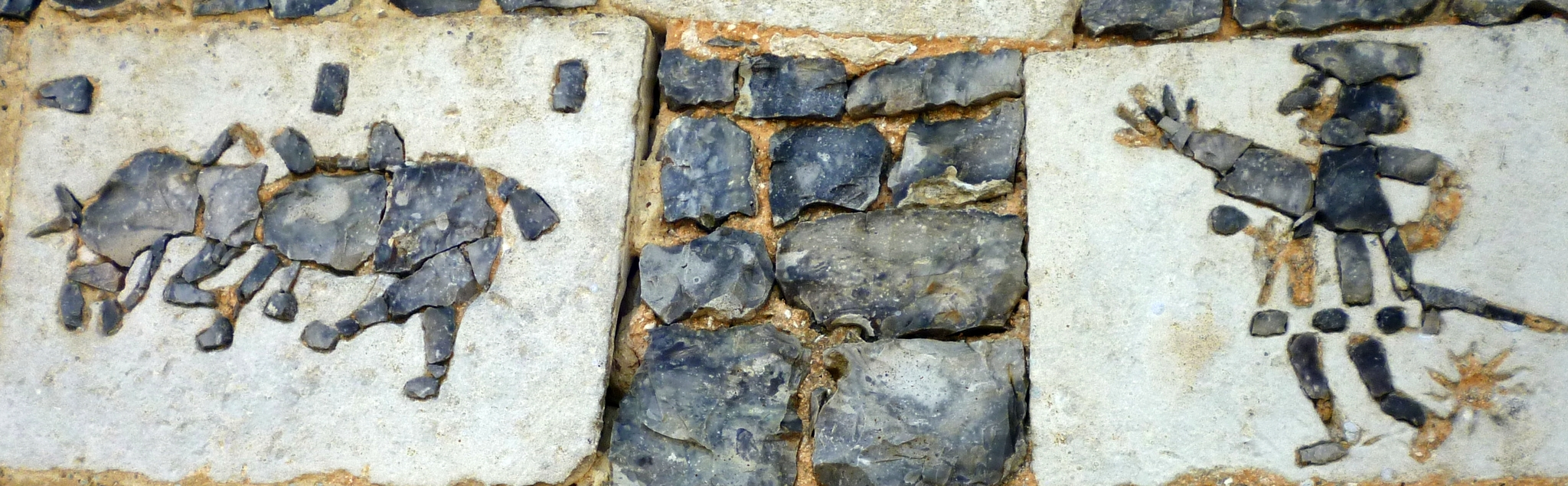 16th century artwork made of flint stone on the outer wall of the church Saint-Grégoire in Saint-Grégoire-du-Vièvre (France). A knight is running after his horse.